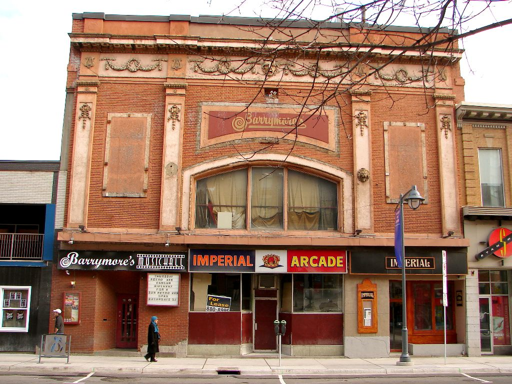 Barrymore's Music Hall, Bank Street, Ottawa, Ontario, Canada